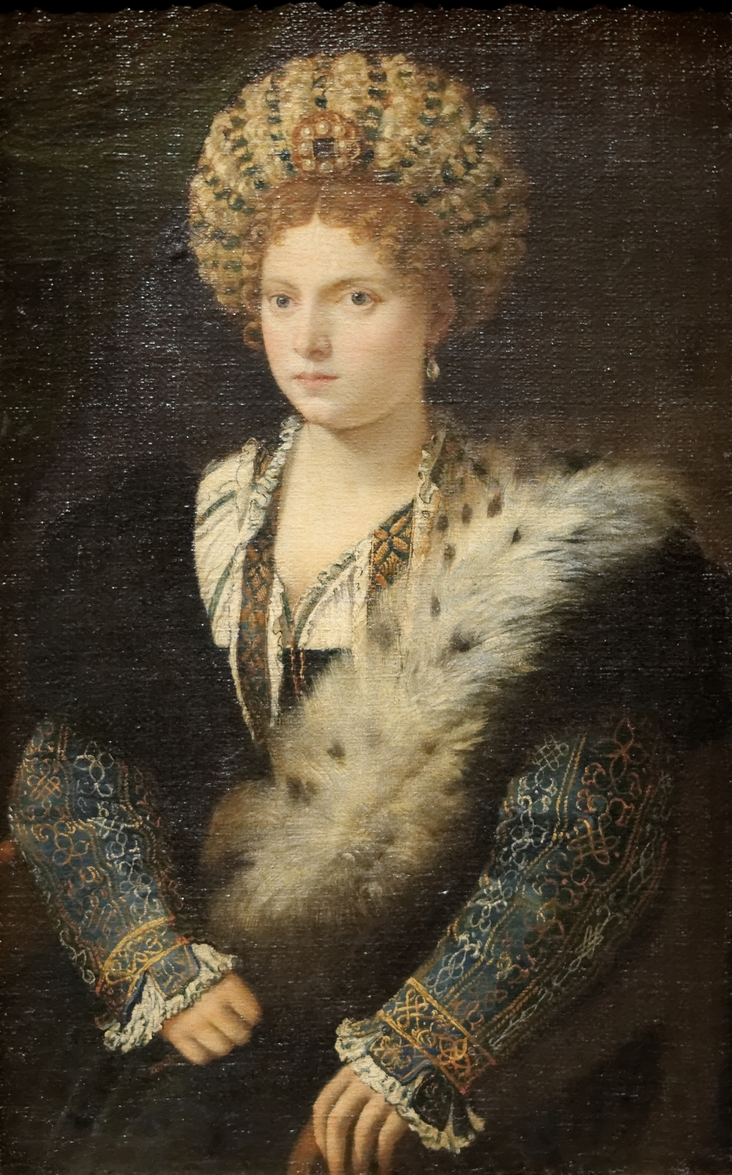 Isabella d’Este, Titien c 1534-36. Isabella d'Este, daughter of the Duke of Ferrara and Modena, married Franceso I Gonzaga, Margrave of Mantua in 1490. As one of the female greatest art patrons in history, she tranformed the Mantuan court into a center of most eminent Renaissance scholars and artists. Isabella allowed Titien to paint her portait twice in the 1530's : at the real age of 60 - the picture is only preserved in a Rubens copy (Inv.- N. GG 1530) - and in the picture shown here, in which the subject is idealised as a much younger, elegant figure, and a fashion trend-setter. The eye colours light-gray is divergent to the other paintings (brown) and the identification is denied by Ozzola and Suida (two former Titian experts).